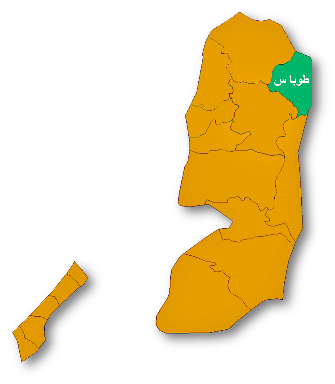 Map of the Palestinian Authorities showing the Governate of Tubas